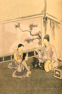 An old teacher of song and music training young kisaeng.